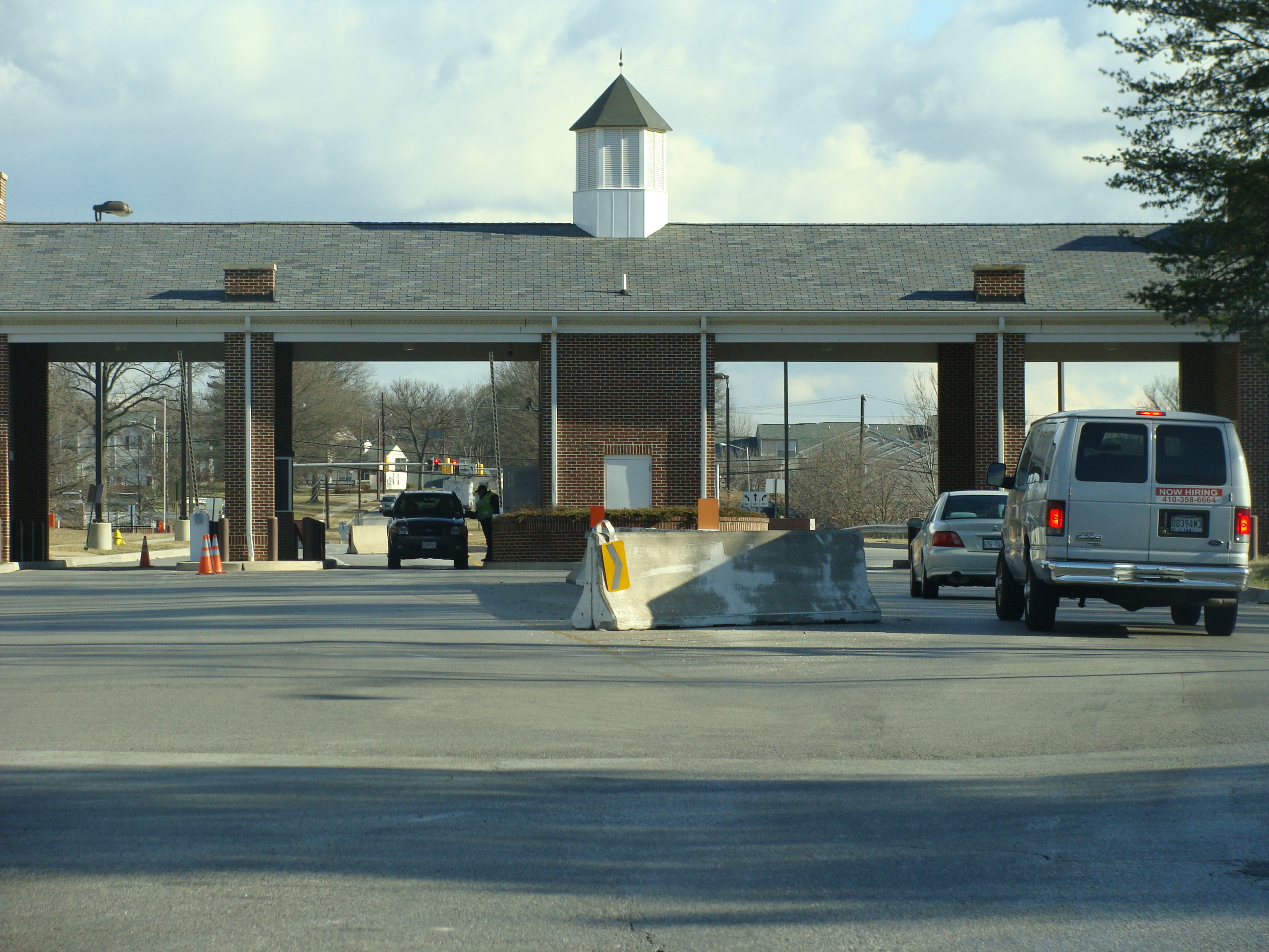 Main entrance to US Army Post, Fort George G. Meade, MD